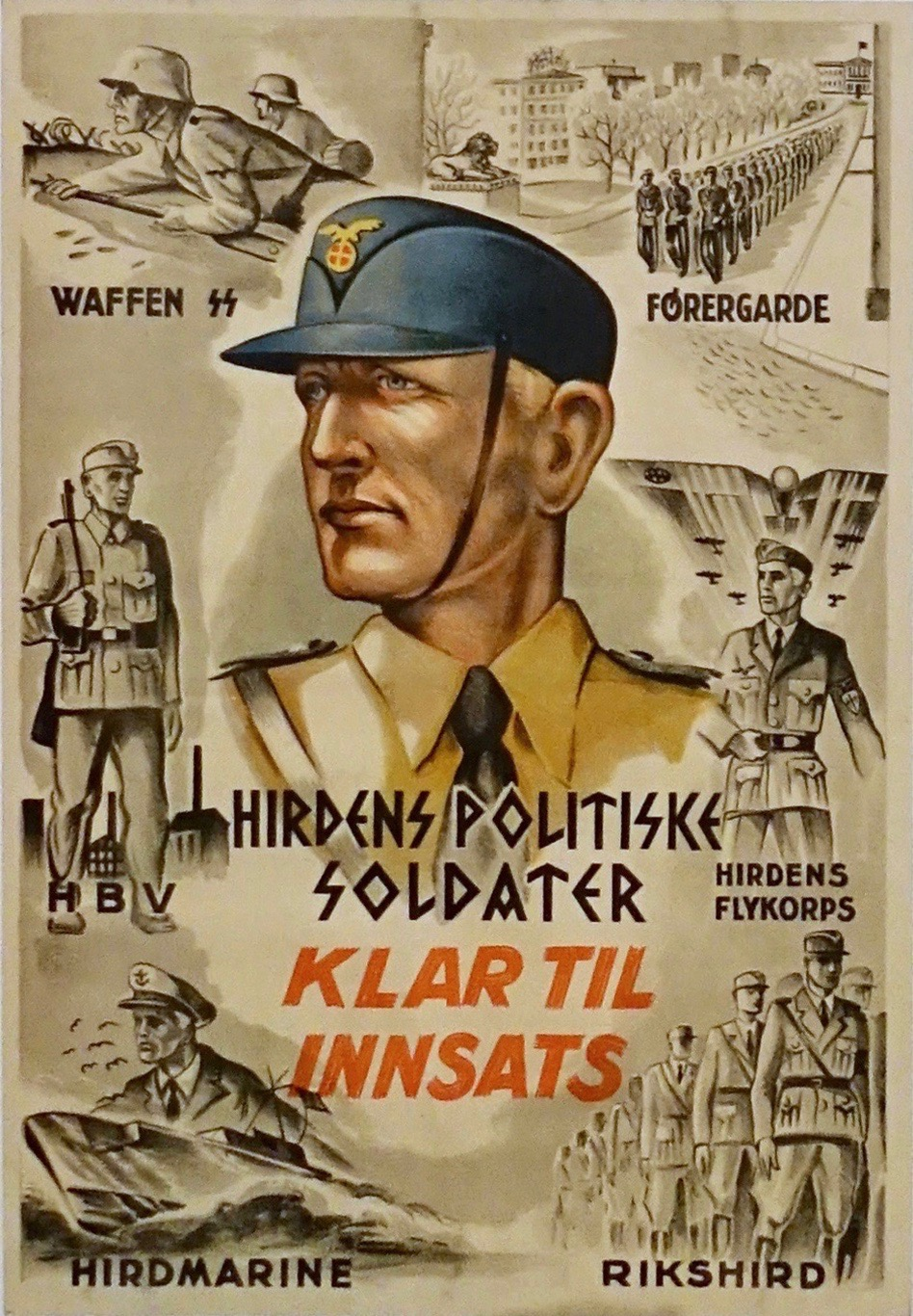 Propaganda poster for the Hird (Hirden) of the Nasjonal Samling (NS), fascist/Nazi party in Norway before and during World War 2. Unknown designers/illustrators. Herolden advertising agency, Oslo 1945. Hirdens politiske soldater klar til innsats Waffen SS; Førergarde; HBV [Hirdens bedriftsvern]; Hirdens flykorps; Hirdmarinen; Rikshird Cropped version of photo 2019-03-07 from the exhibition "PROPAGANDA" showed 2017-2019 at Justismuseet (Norwegian Justice Museum) in Trondheim, Norway